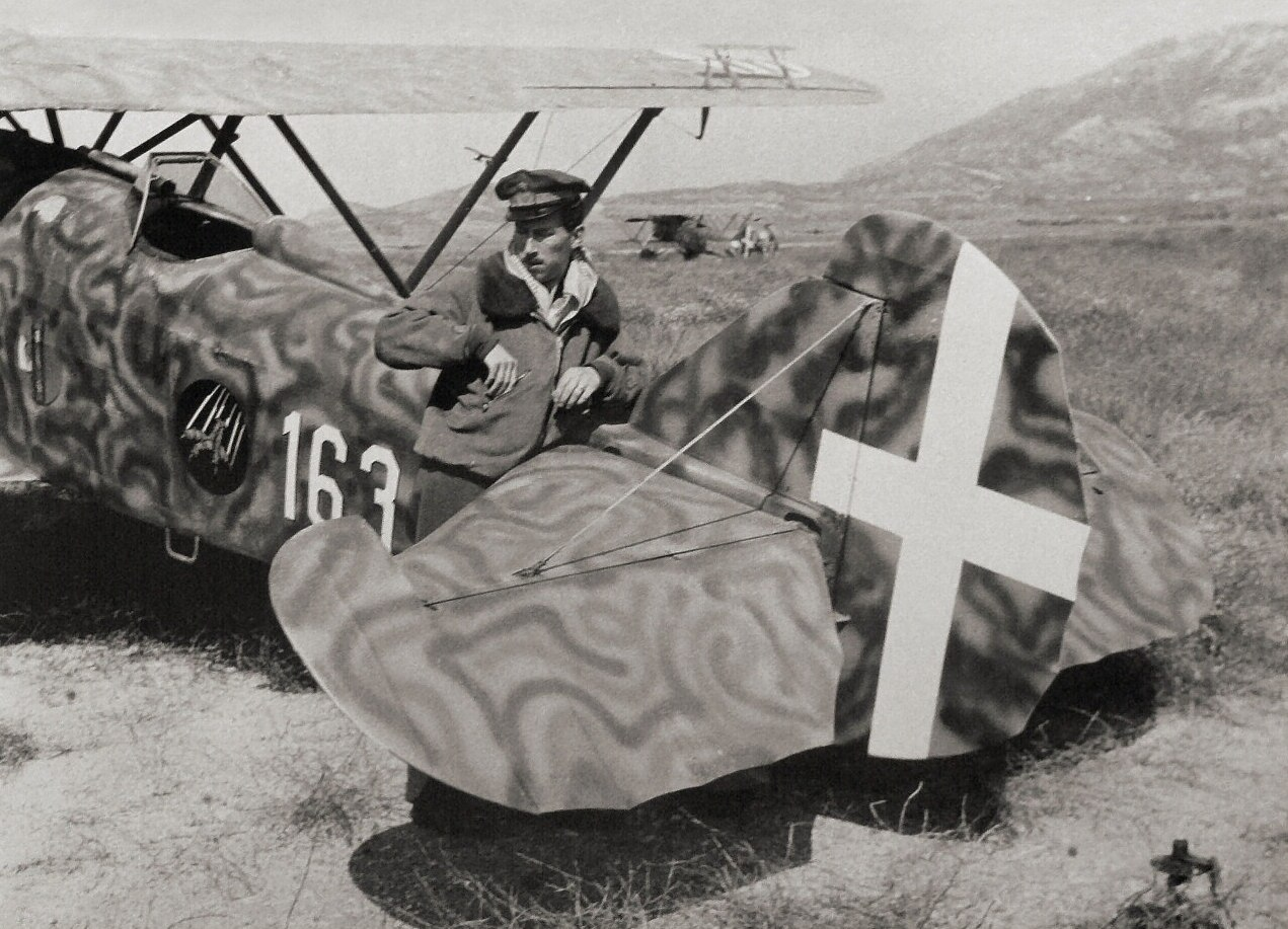 Capt. Mario D'Agostini [1], Gold Medal of Valour, poses behind his Fiat CR.32 of the 163rd Autonomous Land Fighters Squadron, Gadurrà, Rhodos Greece